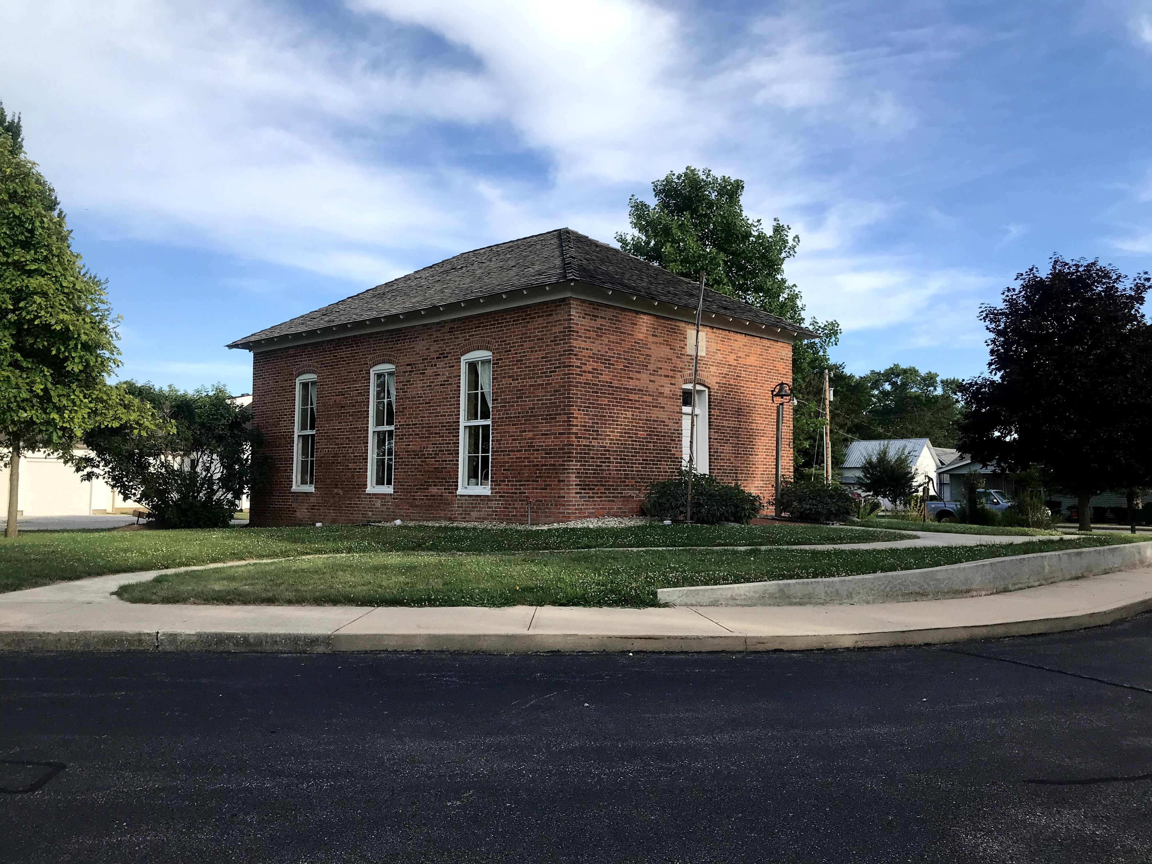 Pittsboro, IN